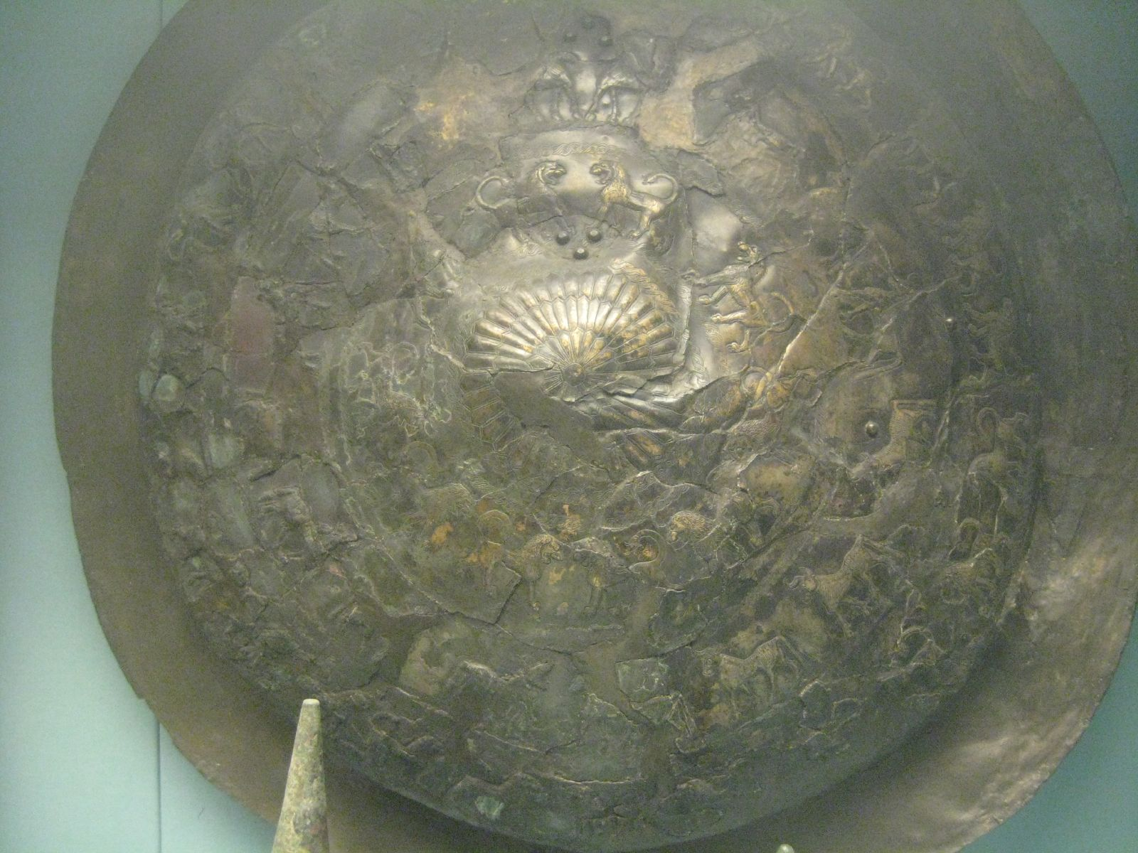 Urartian, about 650 BC. From Toprakkale. Inscription reads "Rusa, son of Erimena, mighty king, great king, lord of the city of Tushpa."